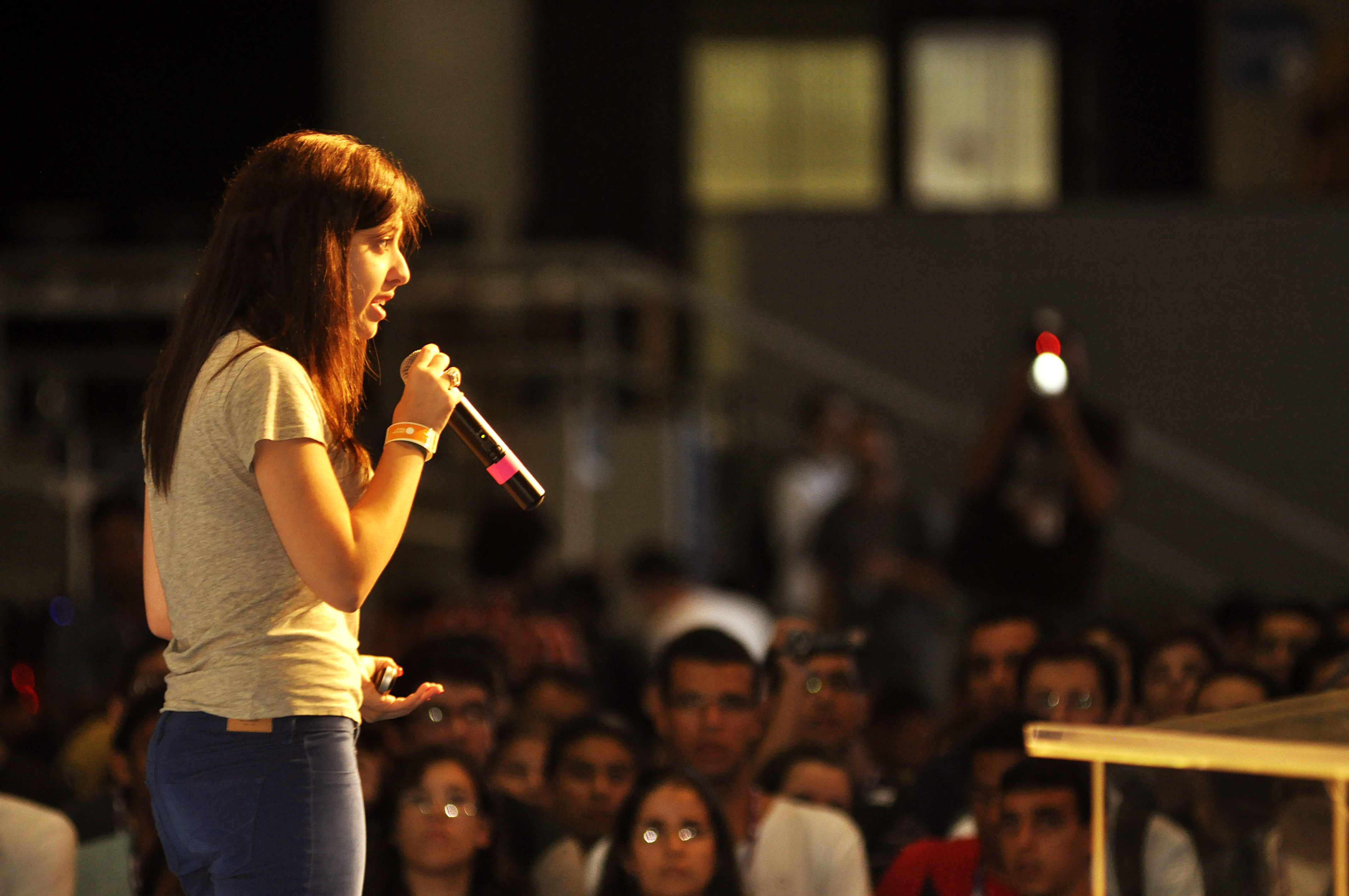 Bel Pesce Foto Gus Oenning Bel Pesce returned to Brazil after the Massachusetts Institute of Technology. FazInova offers free online courses